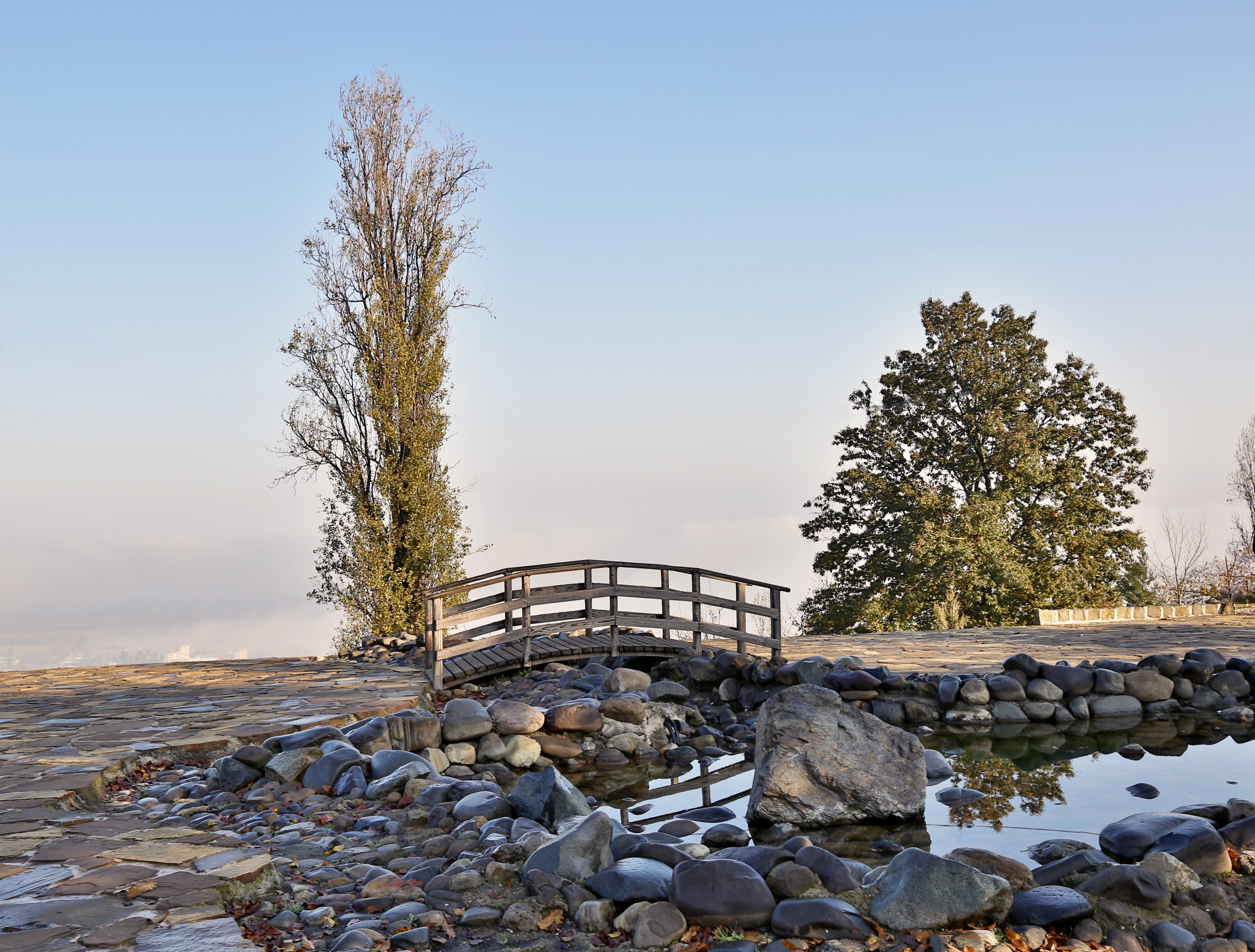 Sheitan Koh (Satan's Hill) From another view